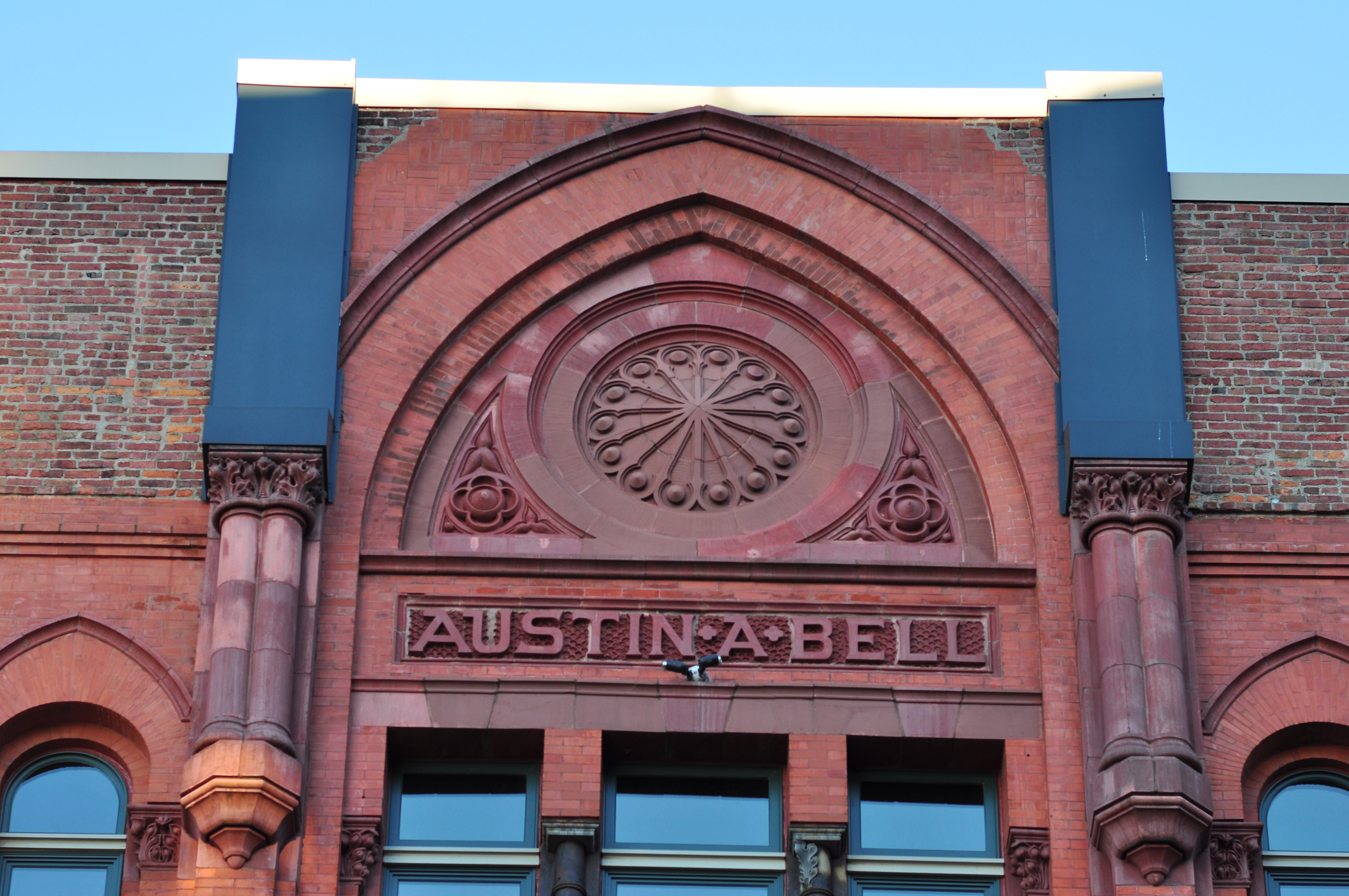 Detail, Austin A. Bell Building, also known as Bell Apartments, 2326 First Avenue, Belltown, Seattle, Washington. Designed by Elmer Fisher and built in 1889, the building was originally a hotel. It was damaged in a 1981 fire, but the façade survived, albeit singed. It was remodeled 1997–1999 by architect Chris Snell as condos. On the National Register of Historic Places, ID #74001957.